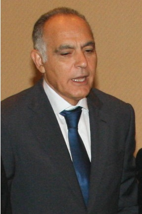 Mezouar (cropped from Original version below)